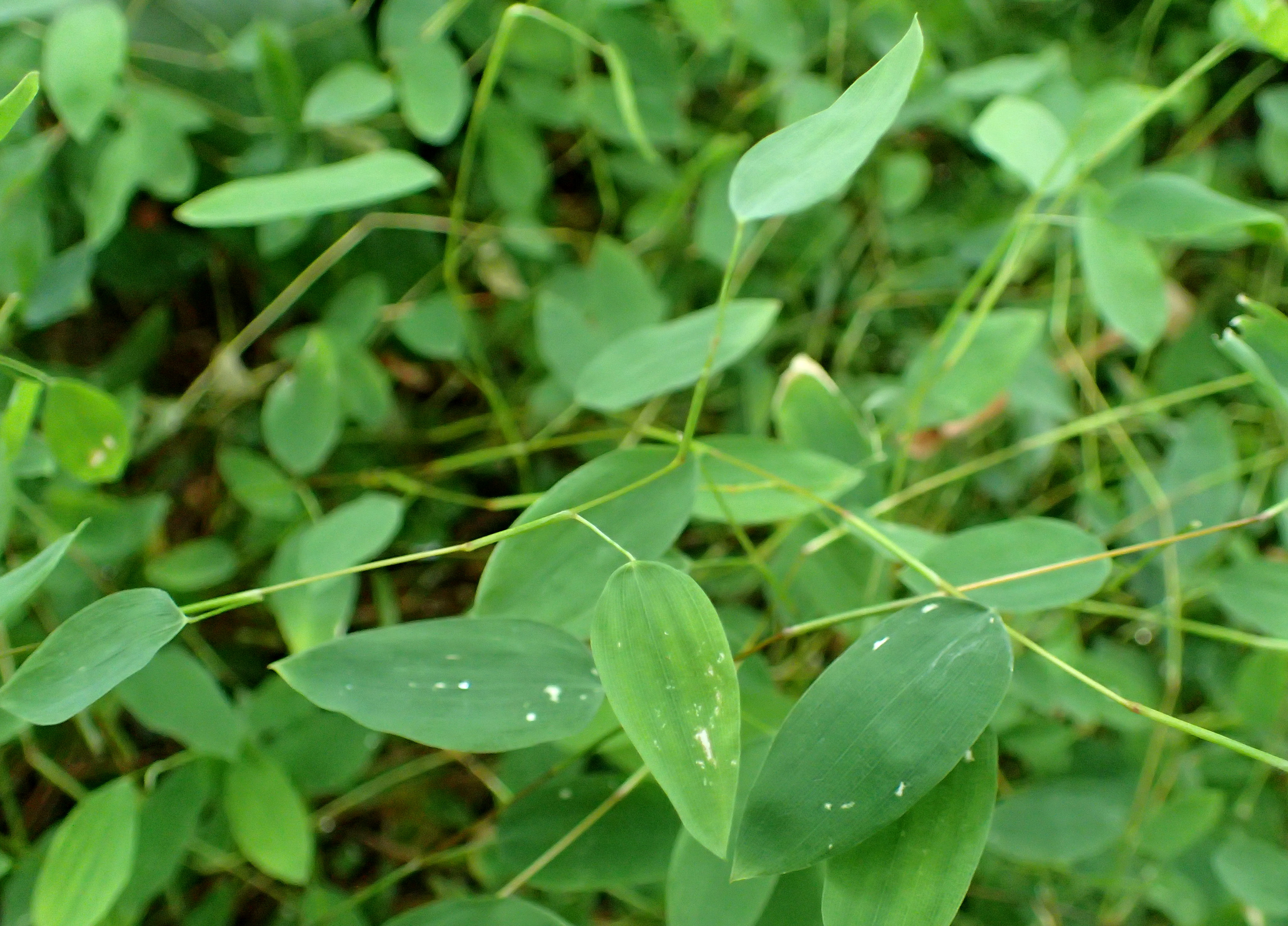 Zeugites americanus at the New York Botanical Garden